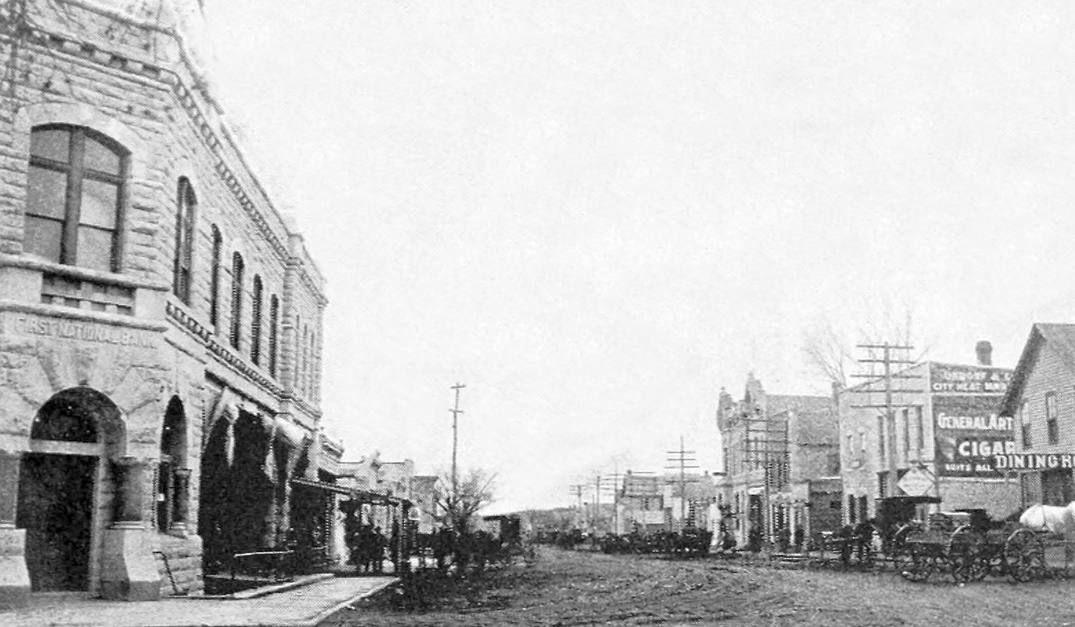 Missouri Street in Alma, Kansas, looking south from the Hotel Alma. Identifier: earlyhistoryofwa00thom Title: Early history of Wabaunsee County, Kansas, with stories of pioneer days and glimpses of our western border.. Year: 1901 (1900s) Authors: Thomson, Matt Subjects: Wabaunsee County (Kan.) -- History Publisher: Alma, Kansas Text Appearing Before Image: HOTEL ALMA, Mes. Theeesa Hoese, Proprietress. Text Appearing After Image: MISSOURI STREET, ALMA, Looking south from Hotel Alma. EARLY HISTORY OF WABAUNSEE COUNTY, KAN.